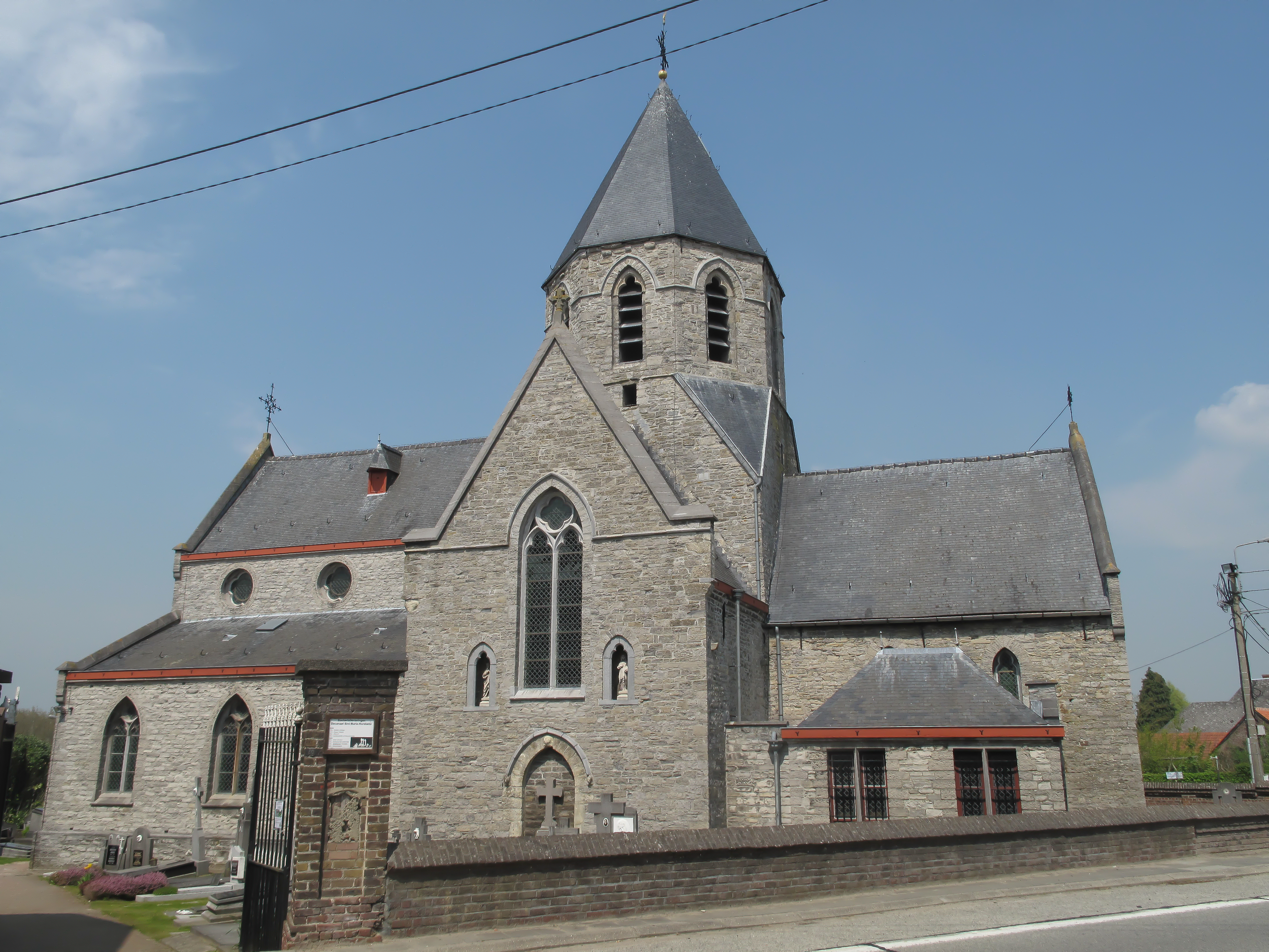 Sint Maria Latem, church: de Onze Lieve Vrouwe Zeven Smartenkerk